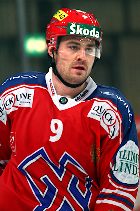 Brendan Bell, Icehockey Player